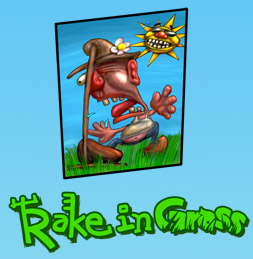 rake in grass logo